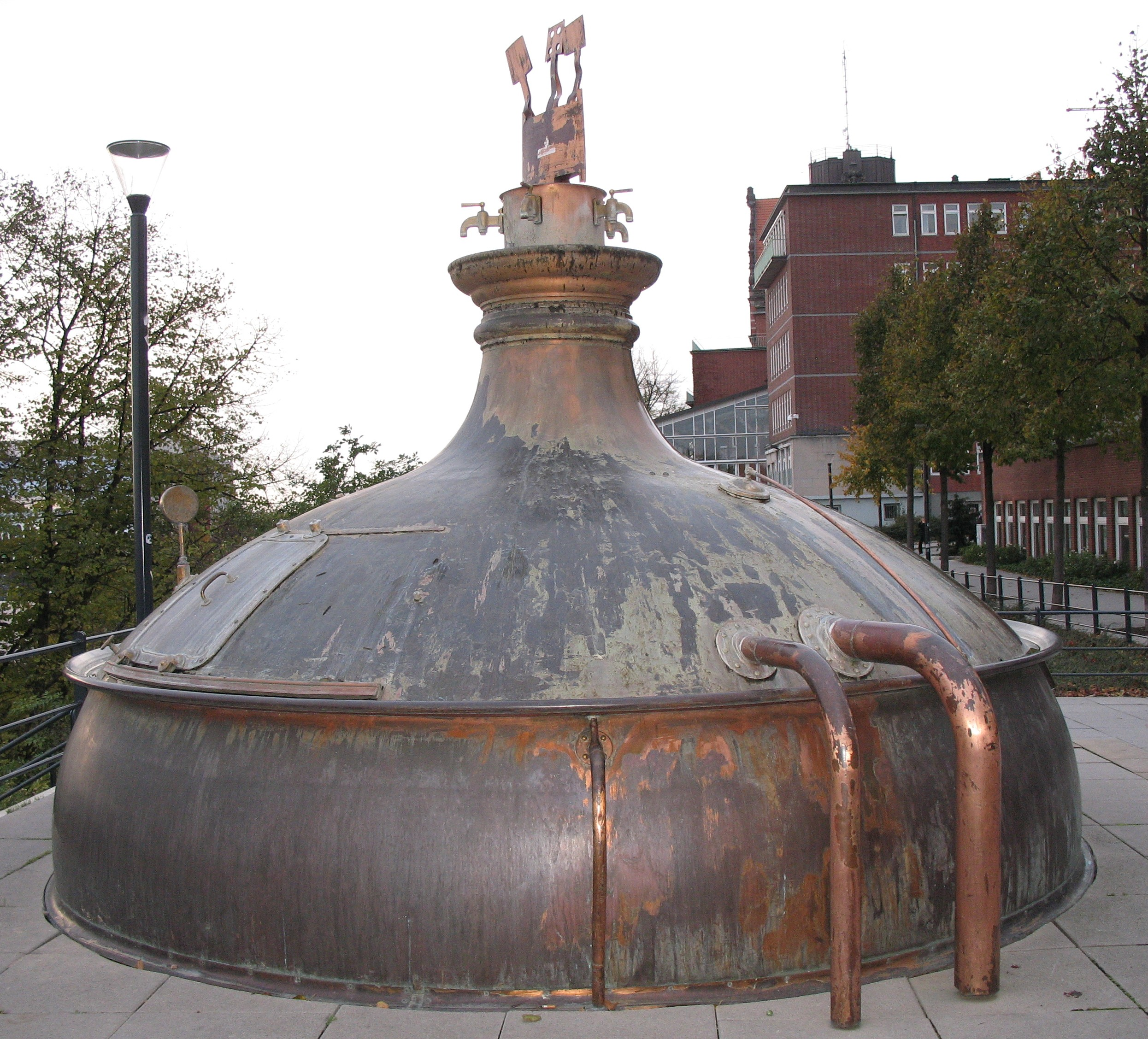 Old wort copper of Holsten brewery, near Landungsbrücken in Hamburg